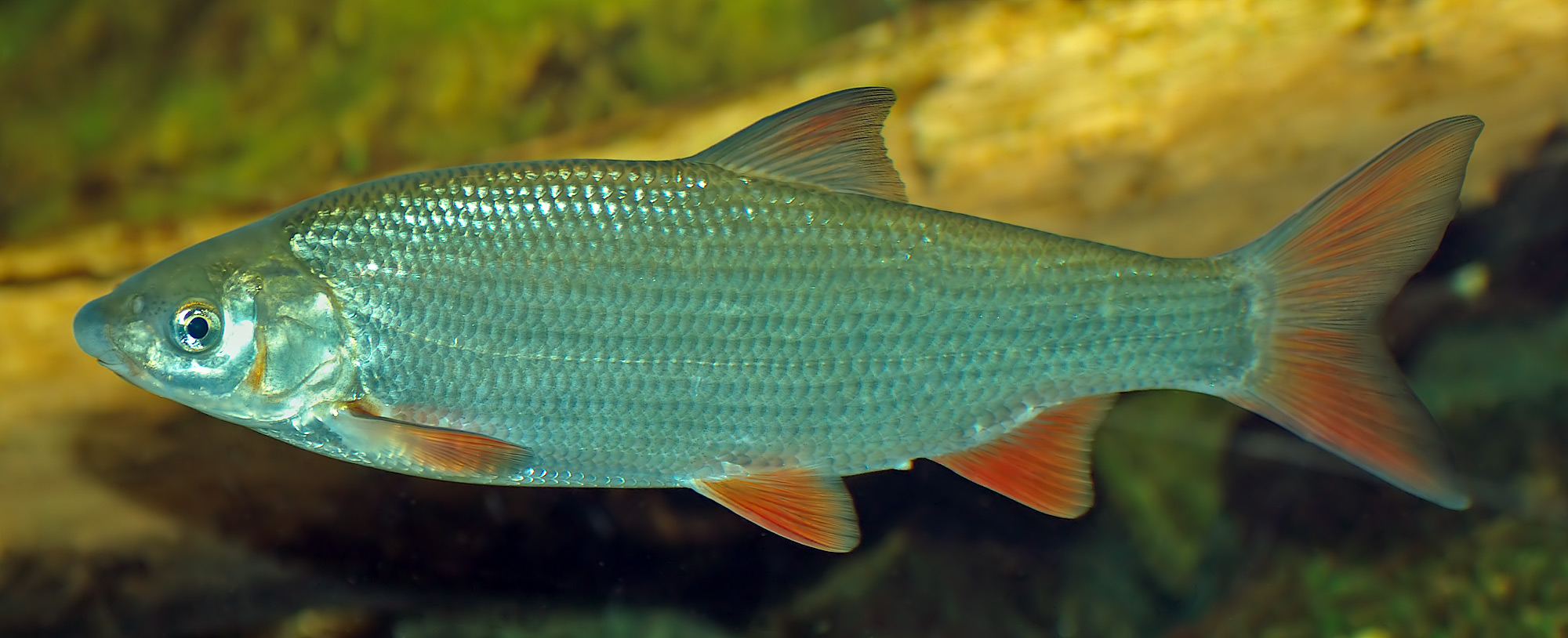 This image shows a Nase (Chondrostoma nasus).